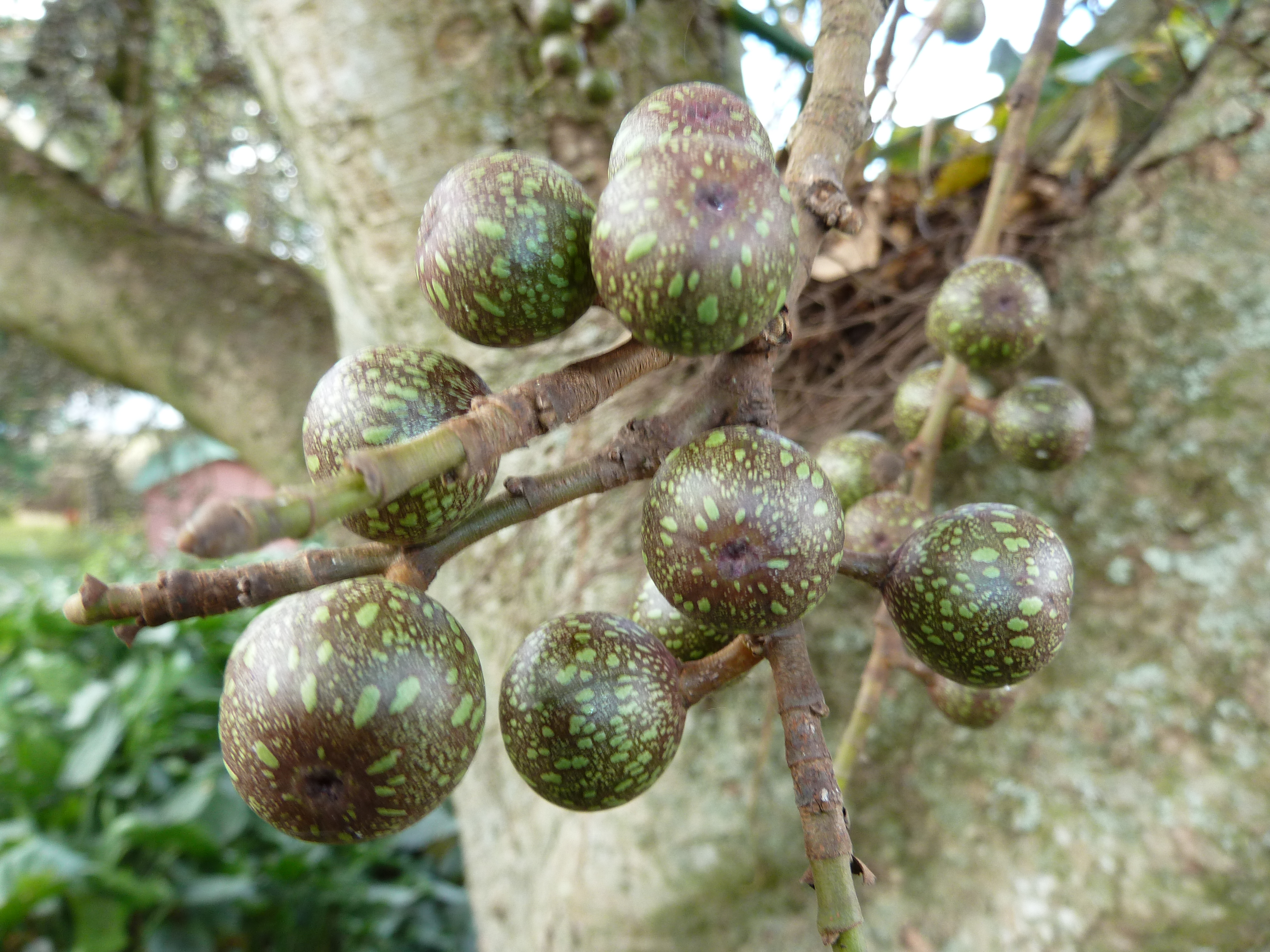 Ripening fig cluster of a Cape fig, near Louwsburg, KwaZulu-Natal